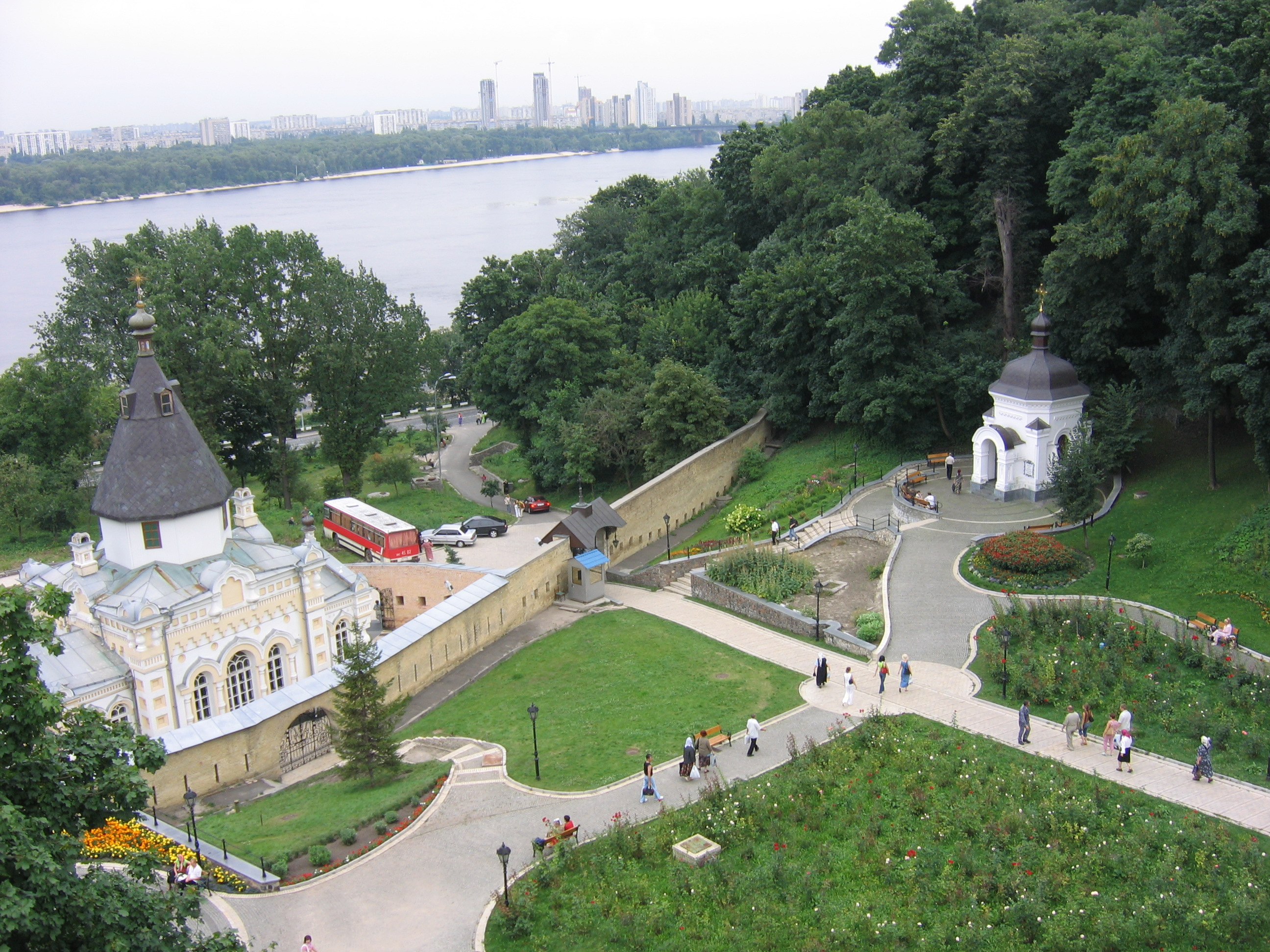 Kiev Pechersk Lavra (Kiev, Ukraine)